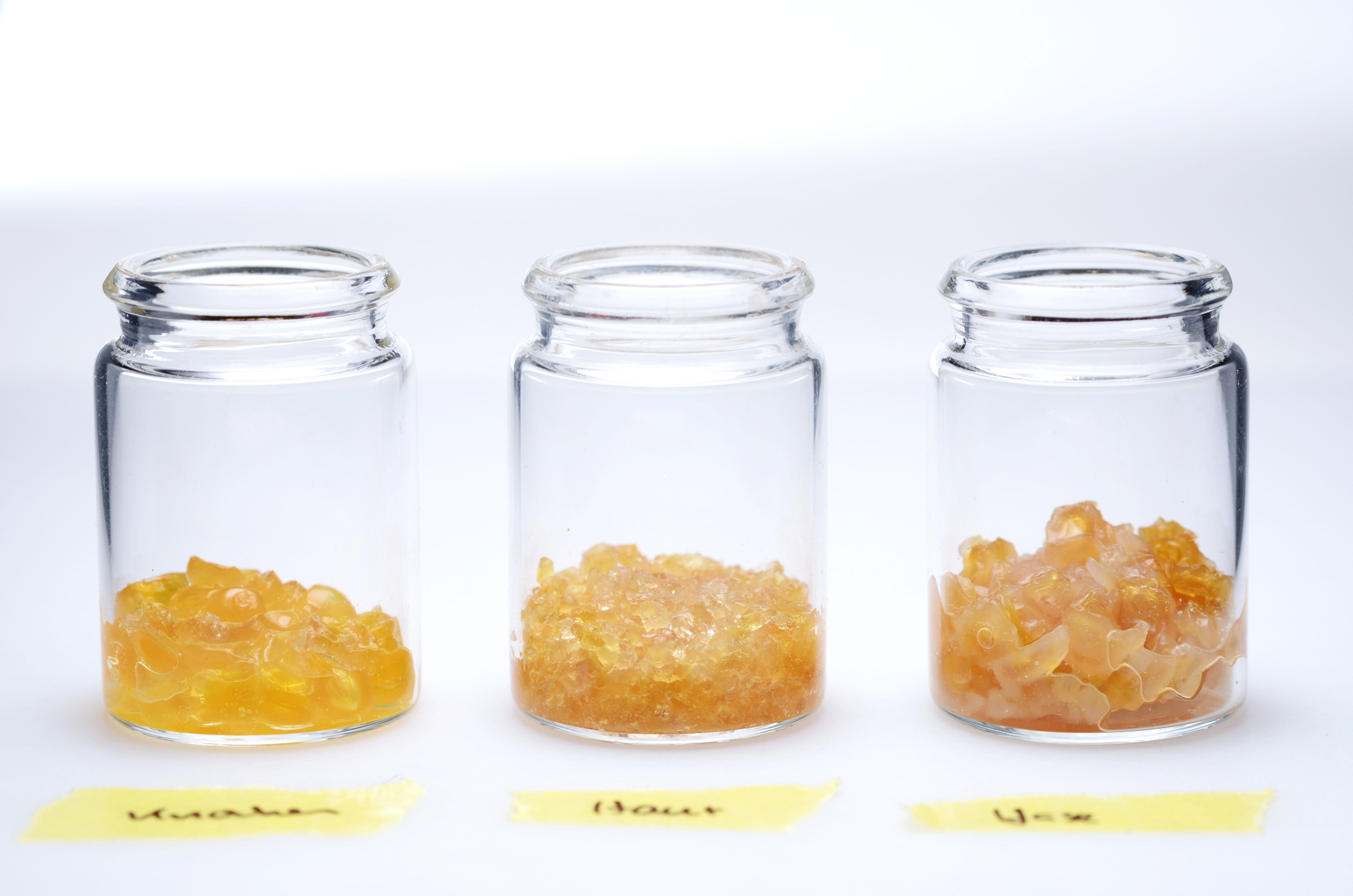 Animal glues, mixed 1:1 with water (mass proportion); They only soak but do not become liquid. From left to right: Bone glue, hide glue, rabbit glue.